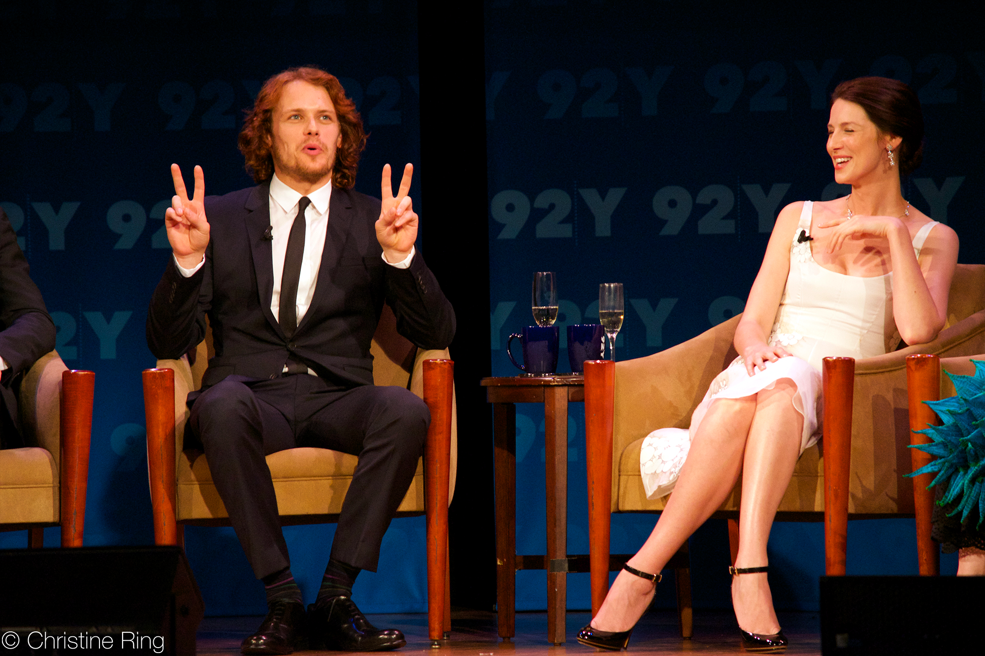 Actors Sam Heughan and Caitriona Balfe at 92nd Street Y for the New York premiere of the first season of the TV series Outlander. The season is based on Diana Gabaldon's novel of the same title and shows Heughan and Balfe starring.